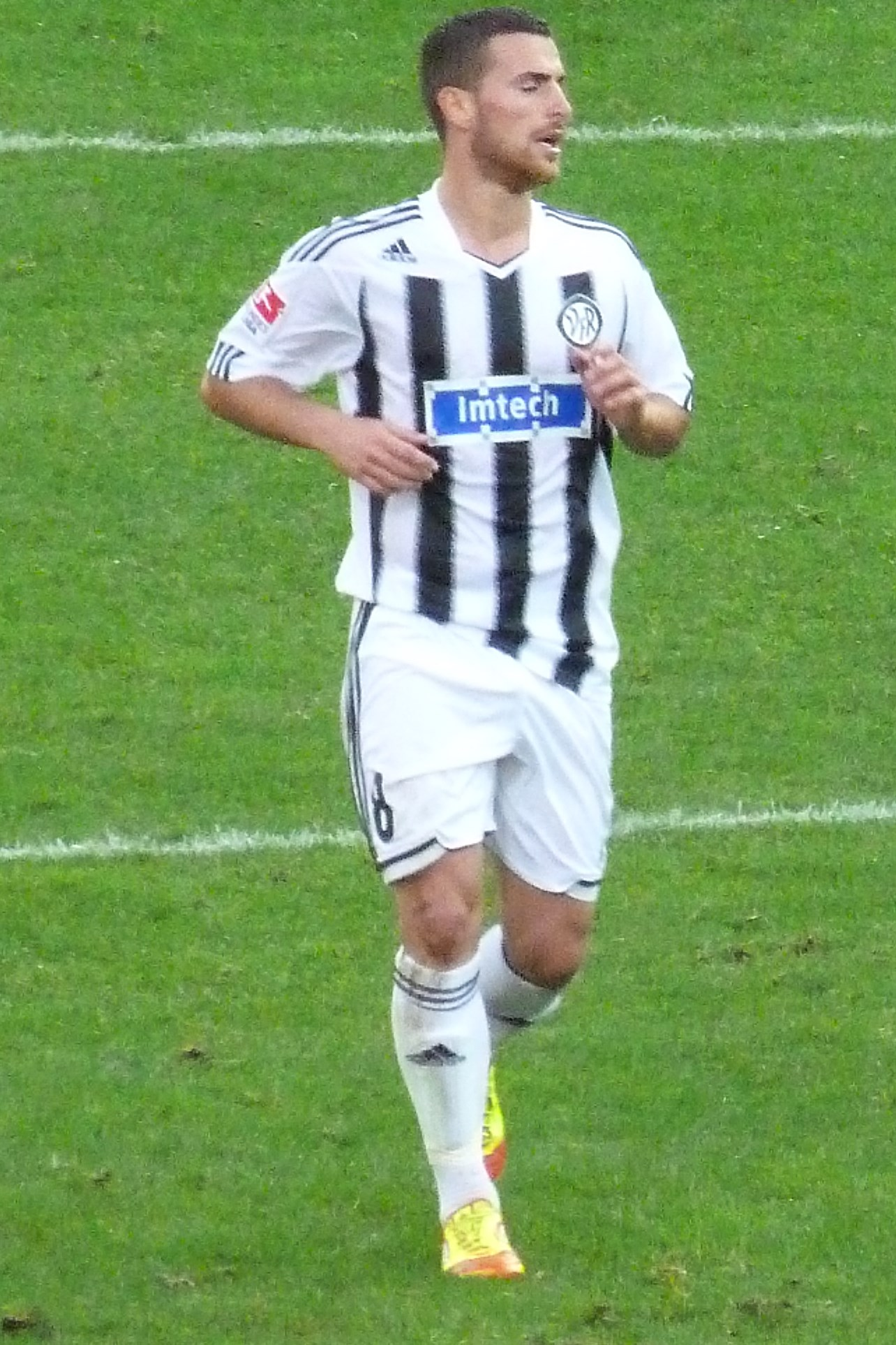 Selim Aydemir as Player from the VfR Aalen